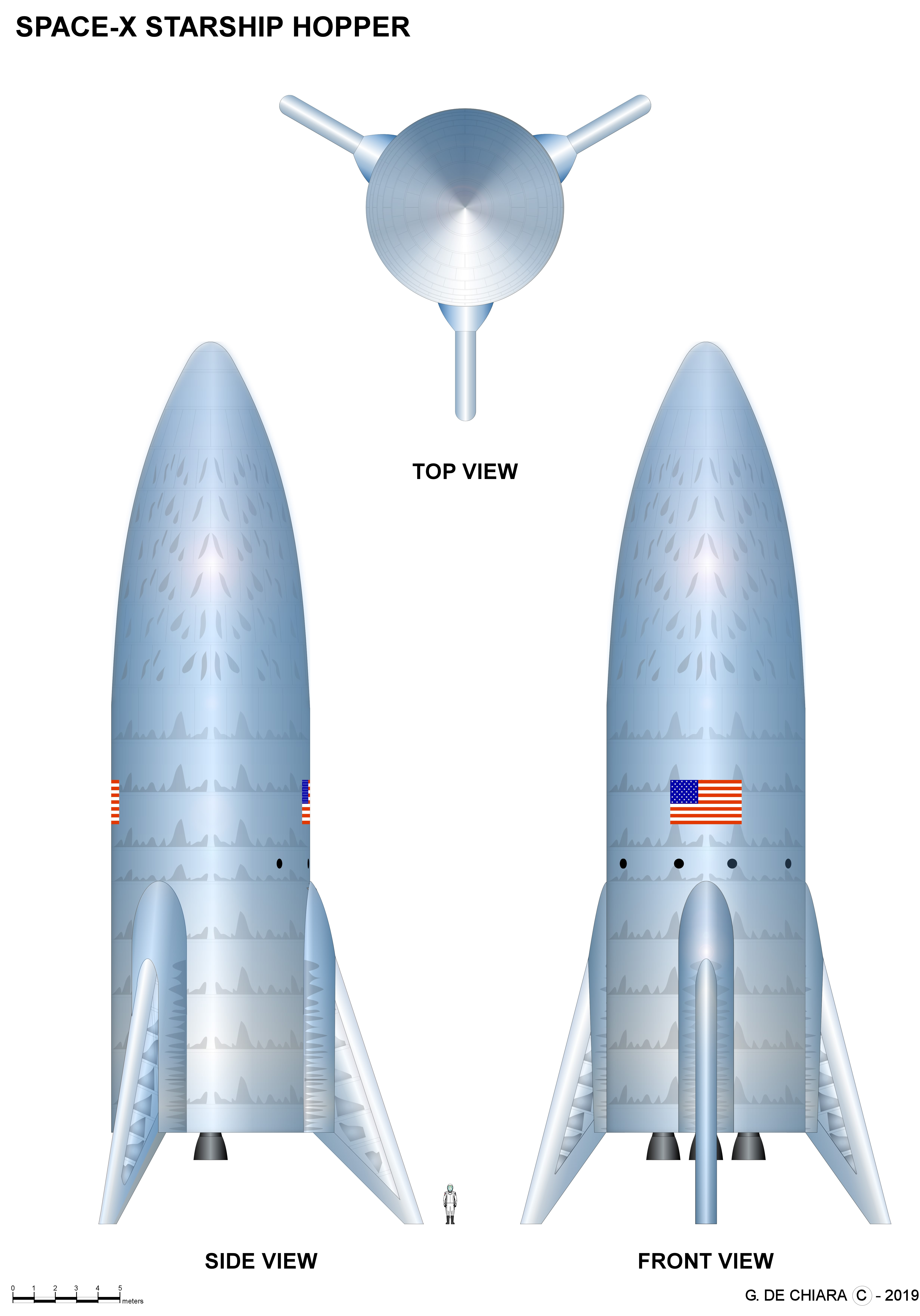 SpaceX Starship hopper three view external layout, as of January 2019. The nose cone of the Starhopper test article was subsequently damaged by high winds, and then scrapped. SpaceX then said the Starhopper test article would conduct testing, including low-altitude low-velocity flight testing, without any nose cone at all, the stubby tank section of the vehicle. Thus, by February, this image no longer represented the "look" of the Starhopper.